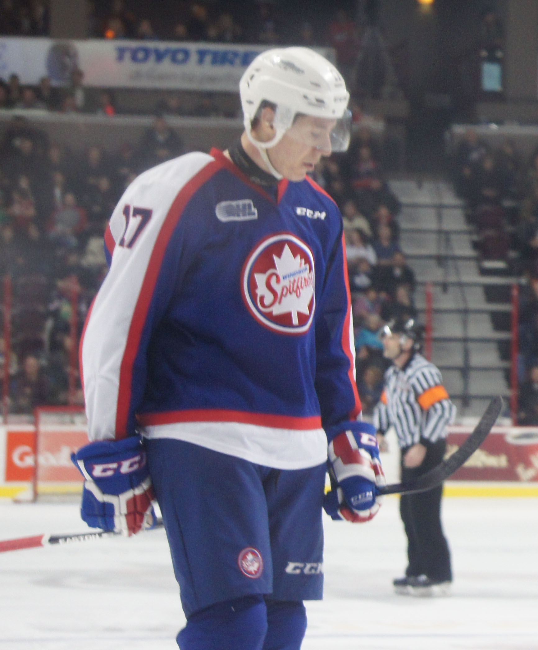 Logan Stanley playing for the Windsor Spitfires against the London Knights in Windsor on January 30, 2016